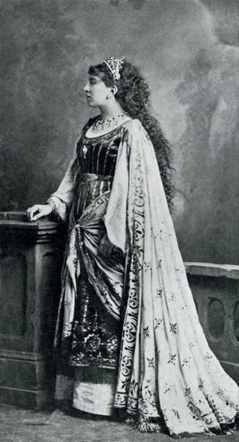 Photograph of Marthe Duvivier as Salomé in Hérodiade